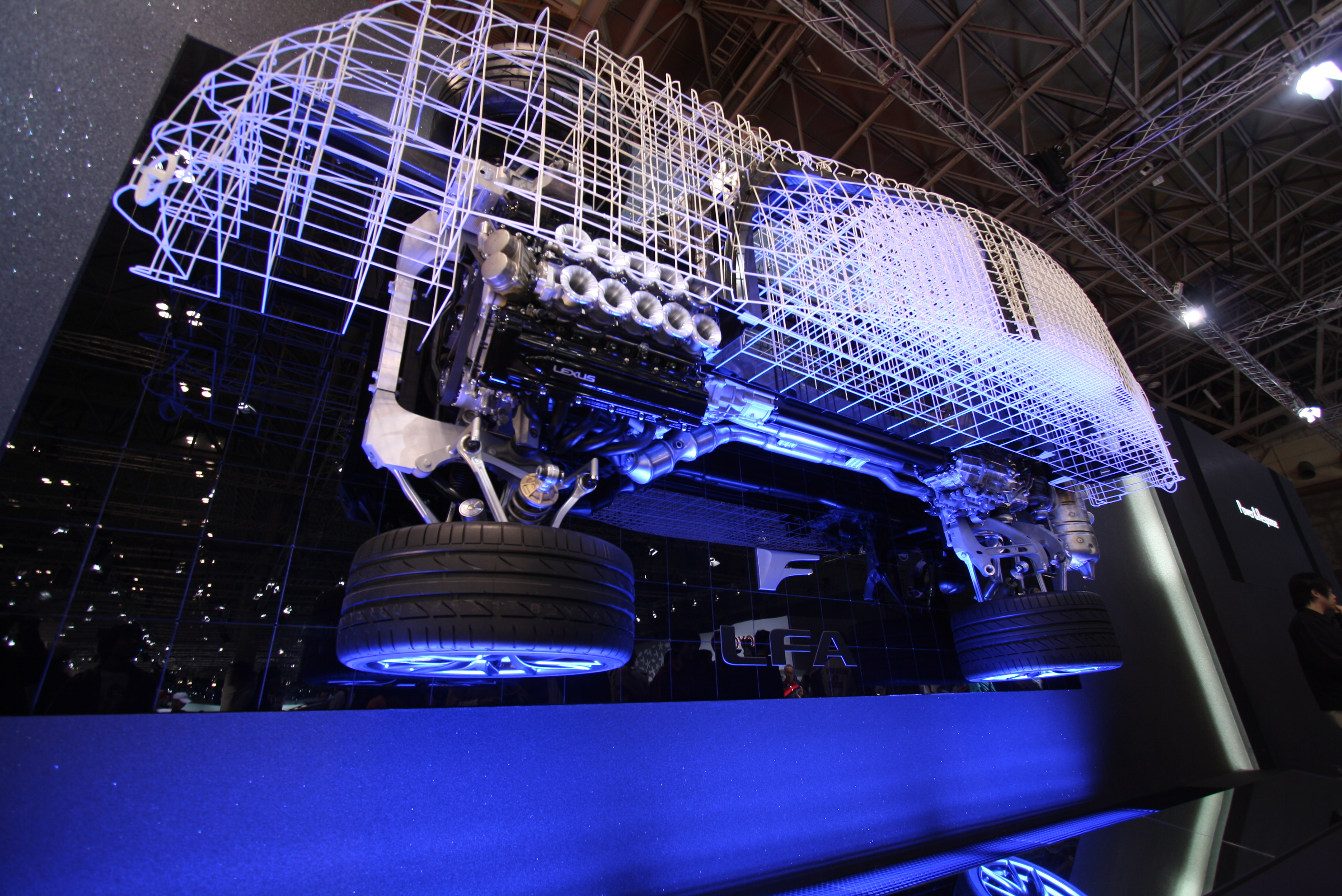 Impressive cut-away of the car, including Lexus' V10 engine.